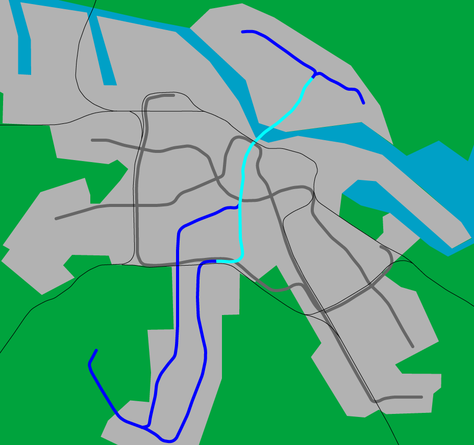 Originally planned aligment for "Noord-Zuidlijn" (North-South line). The part shown in light blue is currently under construction.